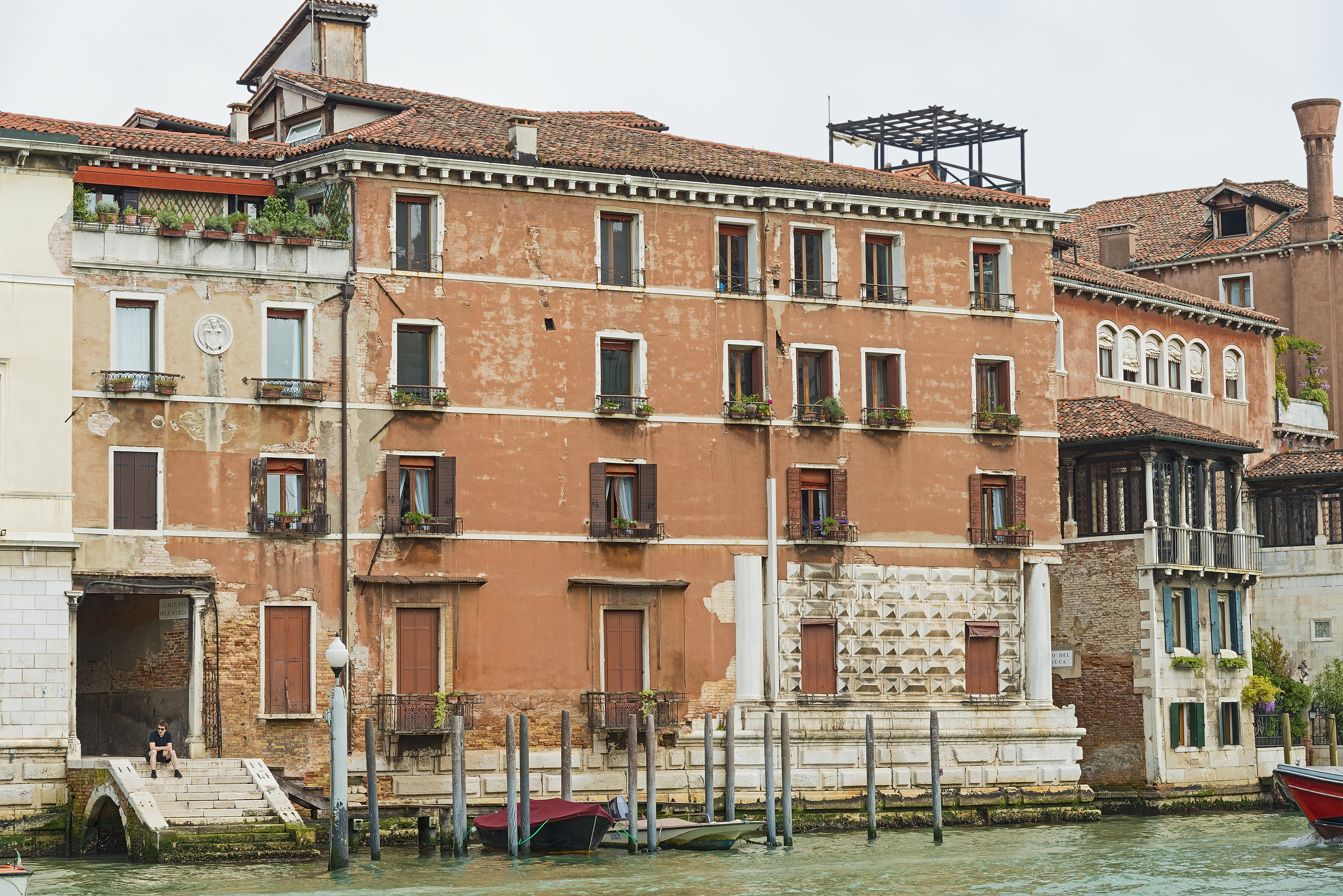 Ca' del Duca in venice - Facade on Grand Canal.